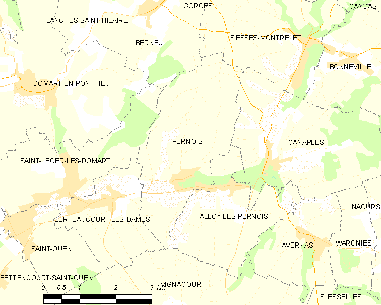 Map of French municipality Pernois